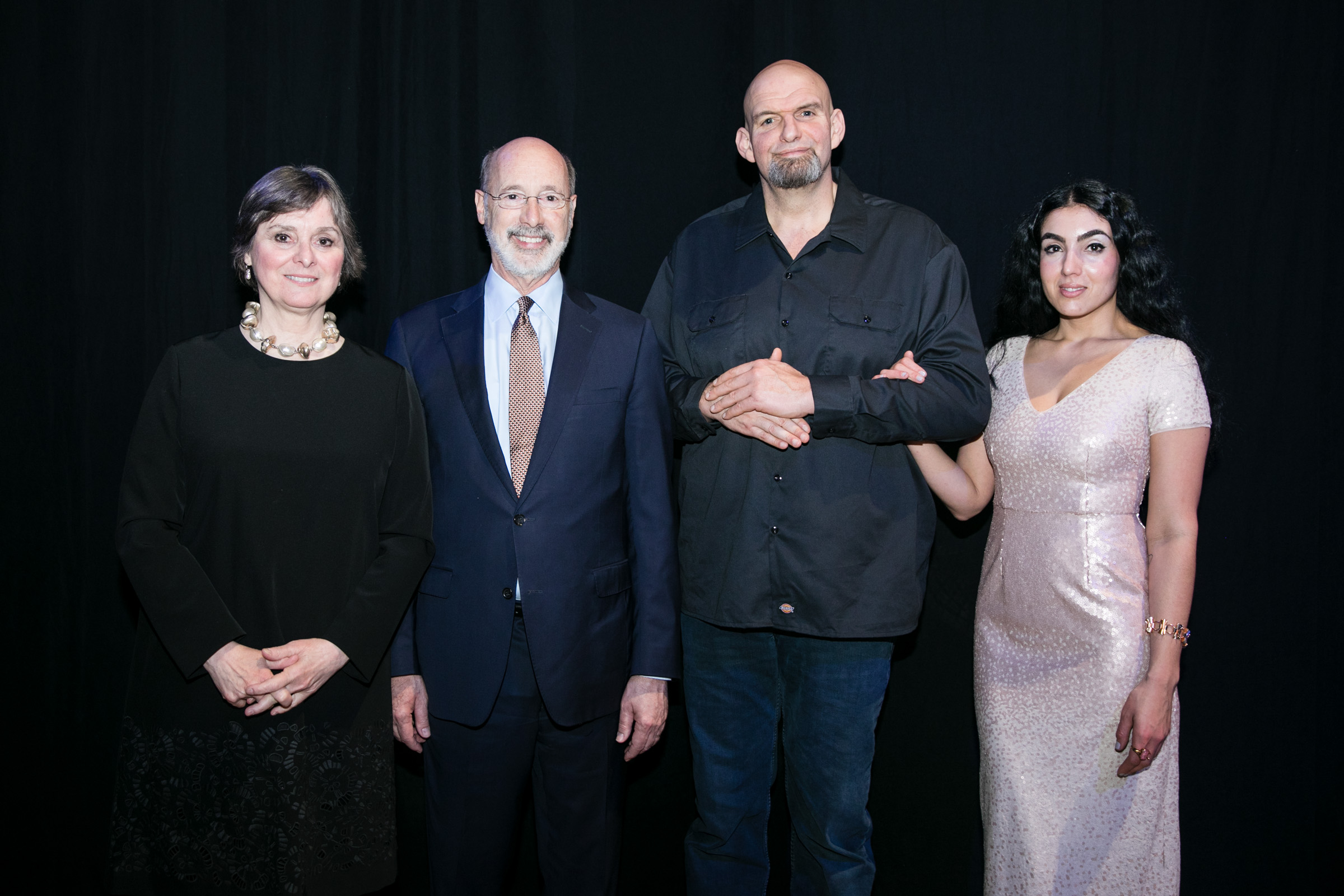 Inaugural Celebration 2019